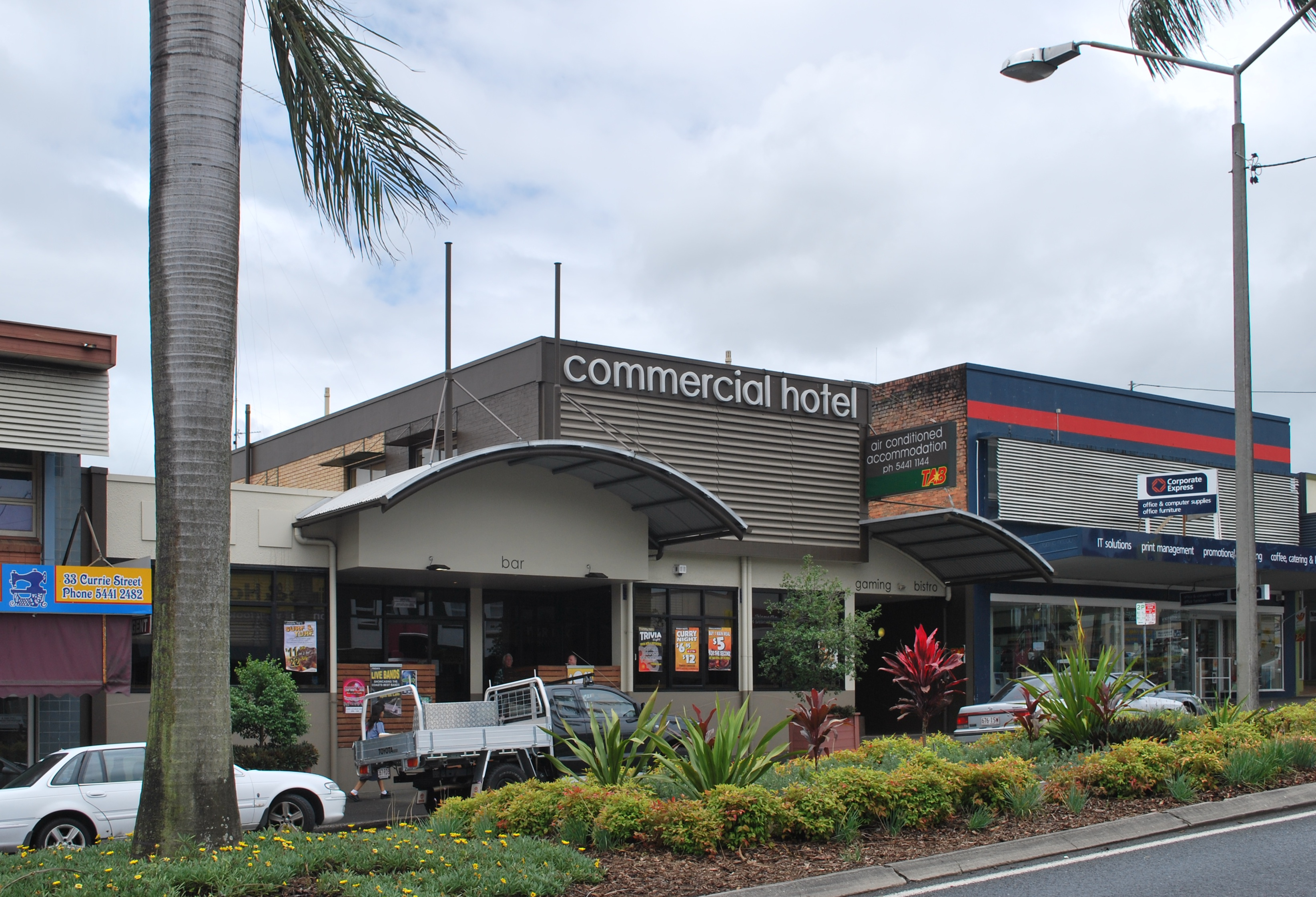 Commercial Hotel at Nambour, Queensland